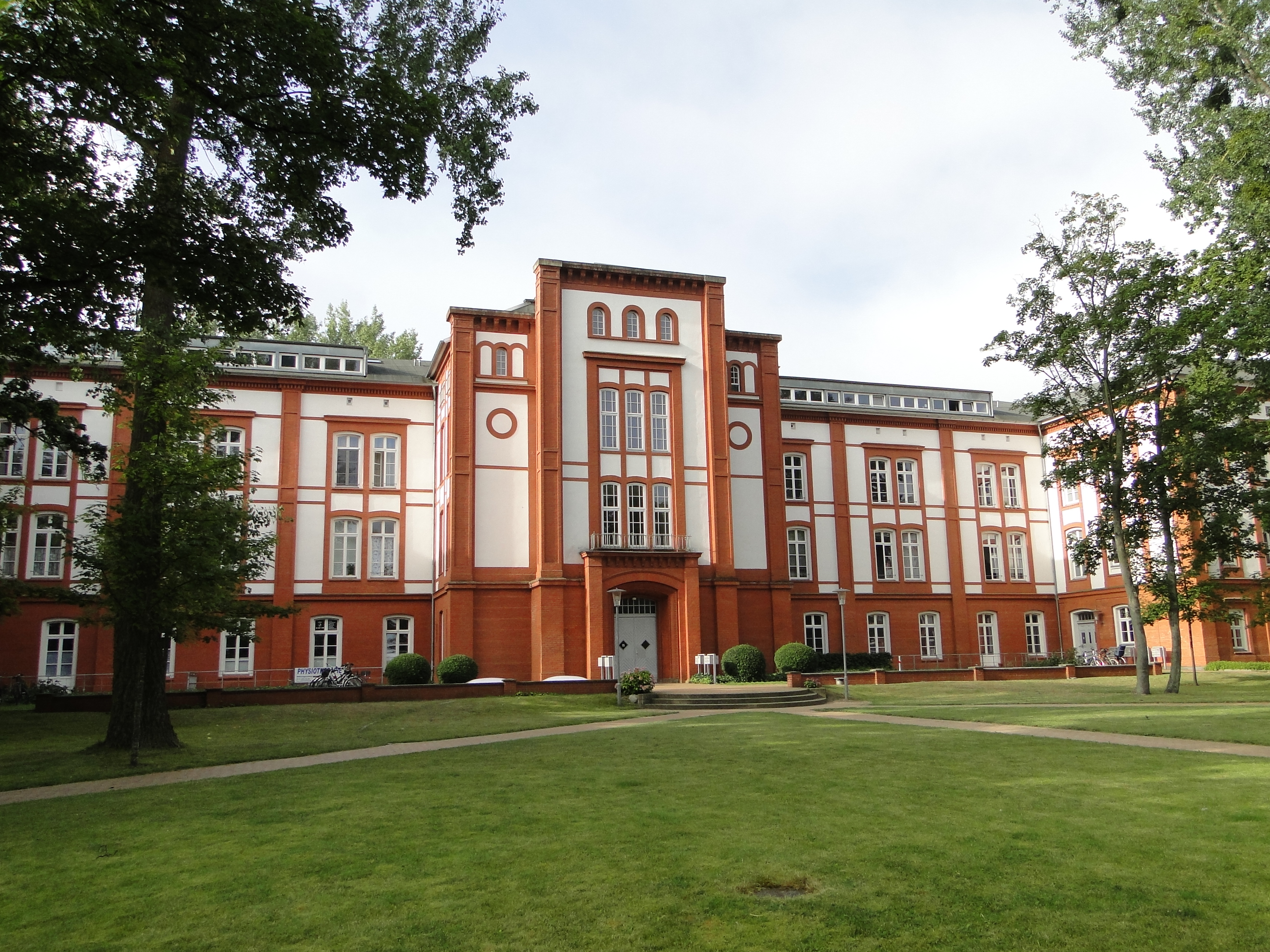 Former military hospital, today a senior residence in Schwerin, Mecklenburg-Vorpommern, Germany